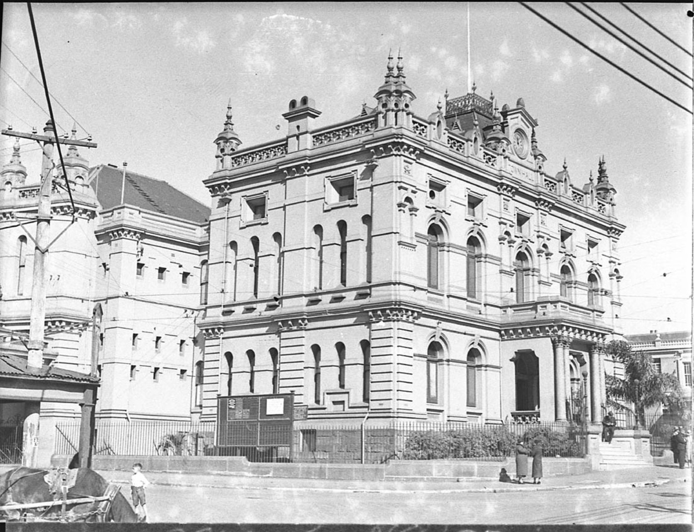 Declaration of the poll at Glebe